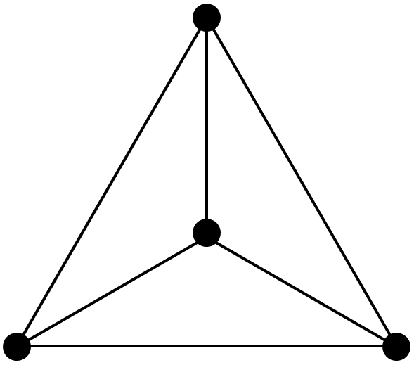 Finite regular graph of third degree with 4 vertices.